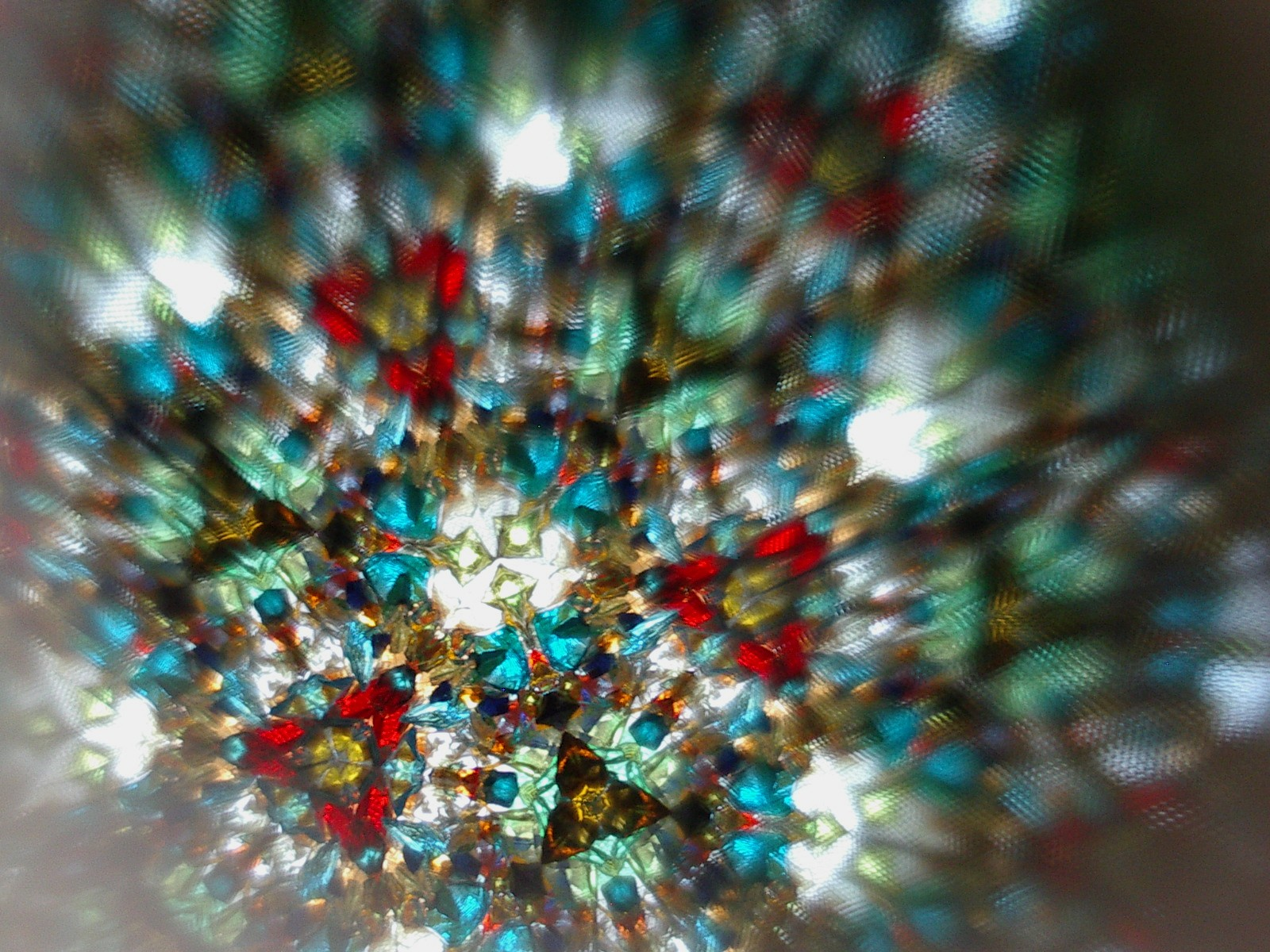 A multi-colored view of a kaleidoscope